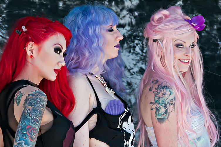 Geek Fashion Show at the 2013 Big Wow! ComicFest in San Jose, California. Shotzi Blackheart, Lavender Simone and Lulie Doll modelling Sea Punk clothing by The Mermaid Atlantis.